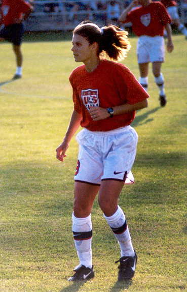 Mia Hamm pregame workout